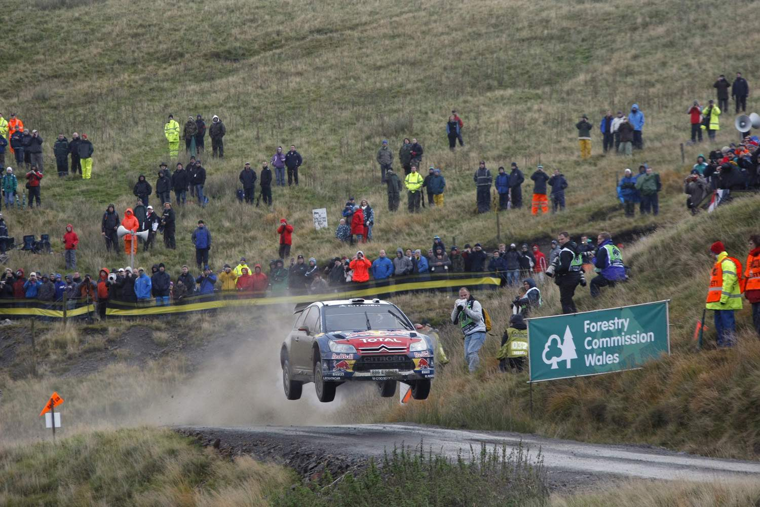 Sébastien Loeb and co-driver Daniel Elena in their Citroën C4 WRC at the 2009 Wales Rally GB.